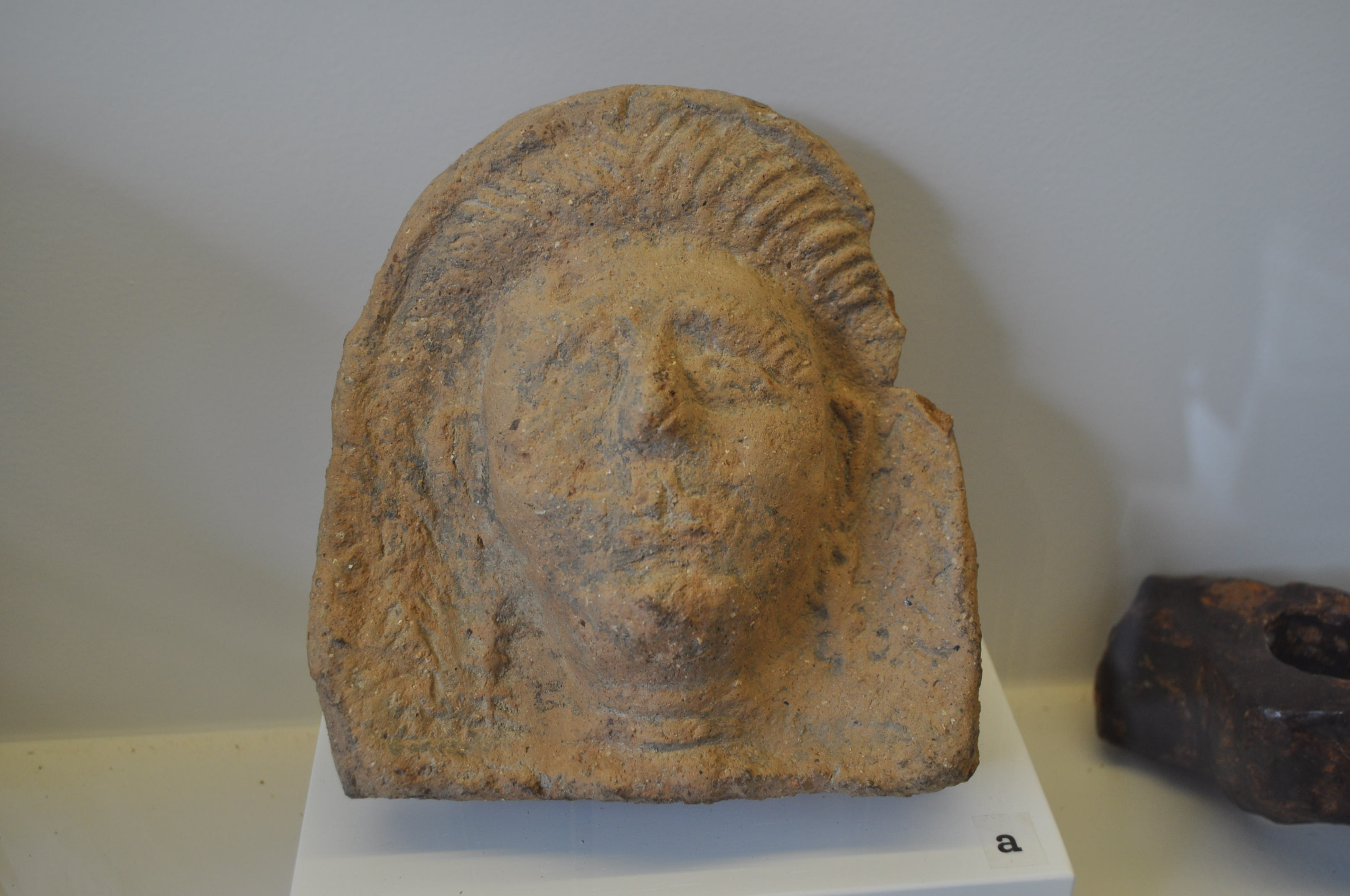 Dama de Sant Llorenç of Llagostera.